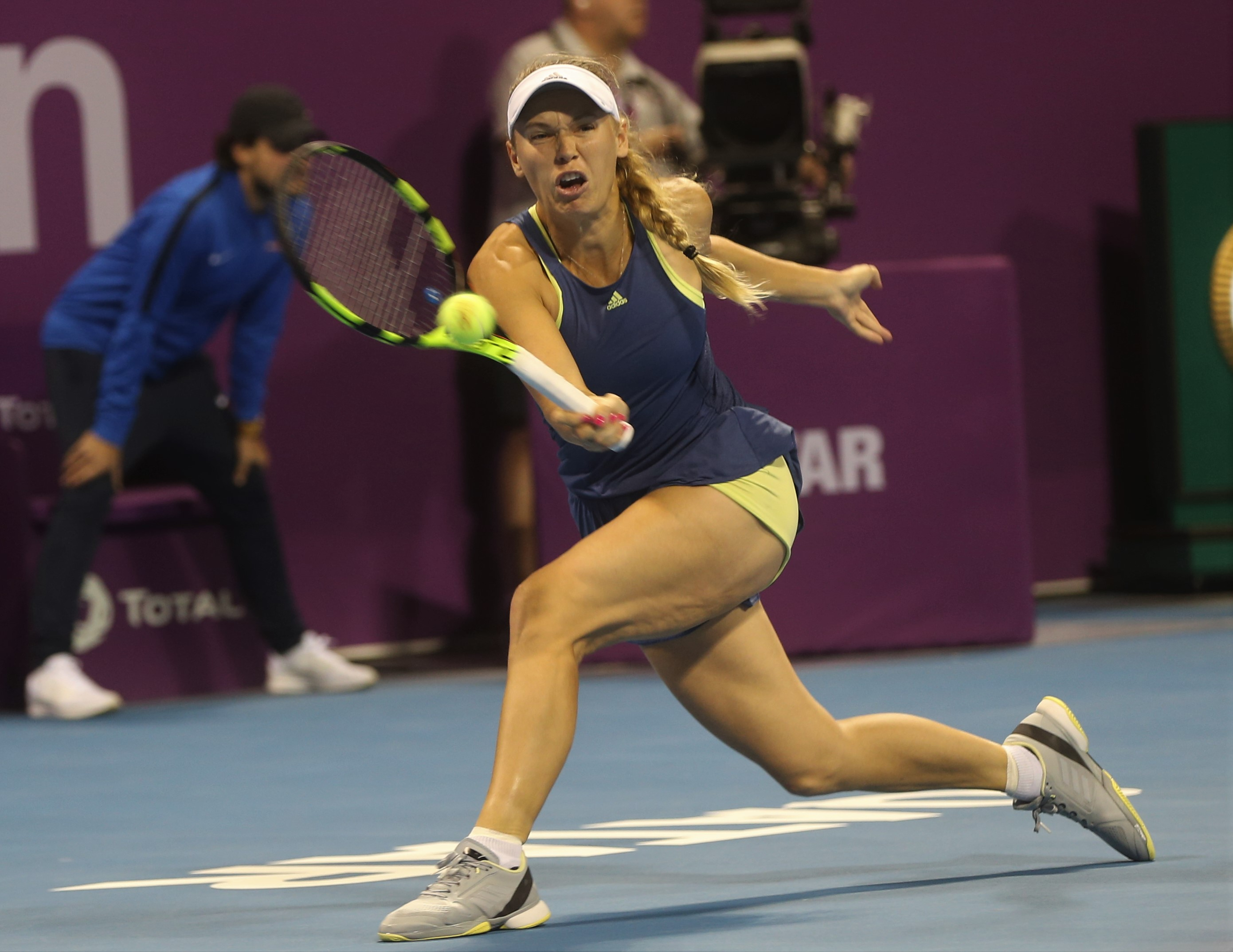 Caroline Wozniacki at Qatar Total OPEN(Photo by Hanson K Joseph)